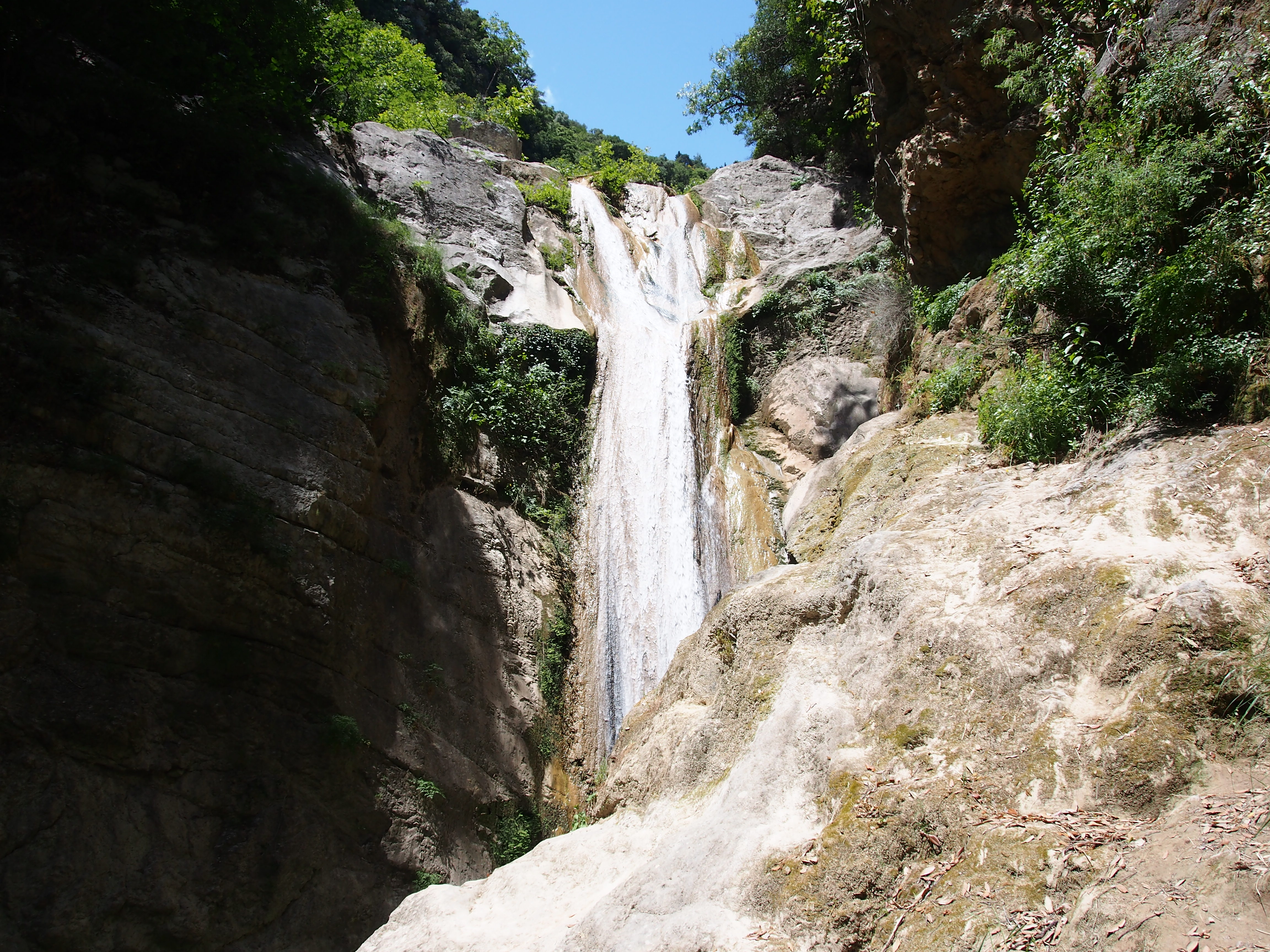 Photographed on Lefkas, Greece.